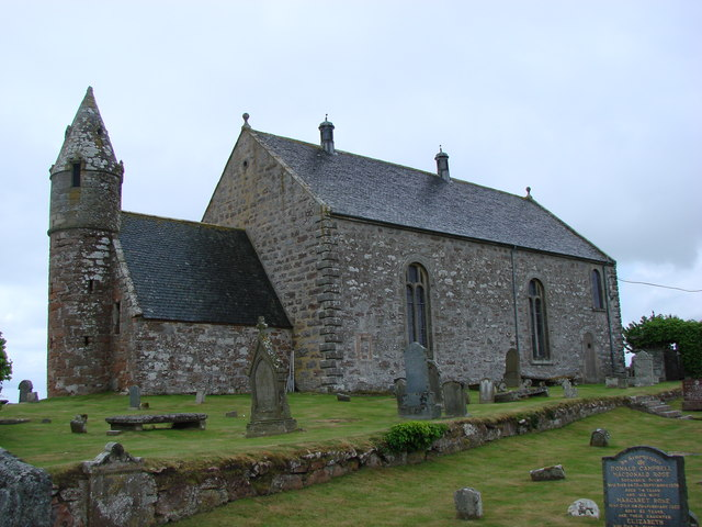 St Mary's, Kilmuir Easter Church of Scotland